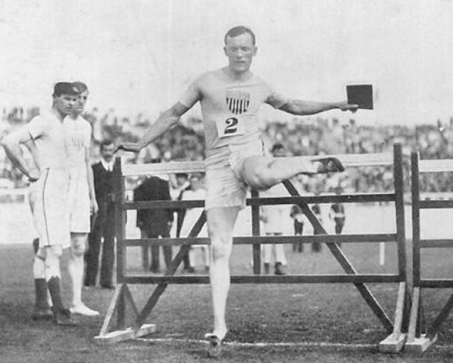 Forrest Smithson, winner of the 110 m hurdles at the 1908 Summer Olympics. This picture showing a jump with a bible in his hand was taken after the race. Source: Illustration in the "Fourth Olympiad 1908 London Official Report" published by the British Olympic Association in 1909